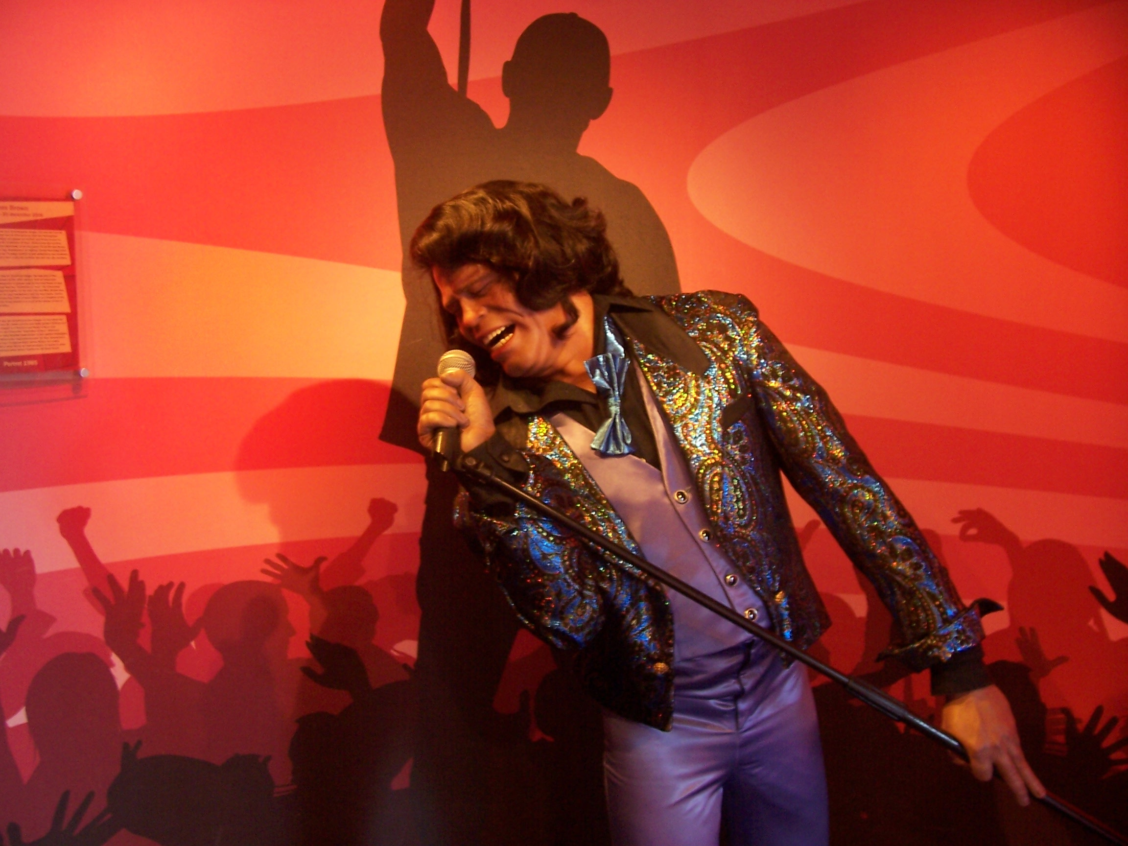 Singer James Brown In Madame Tussaud Wax Museum, Amsterdam